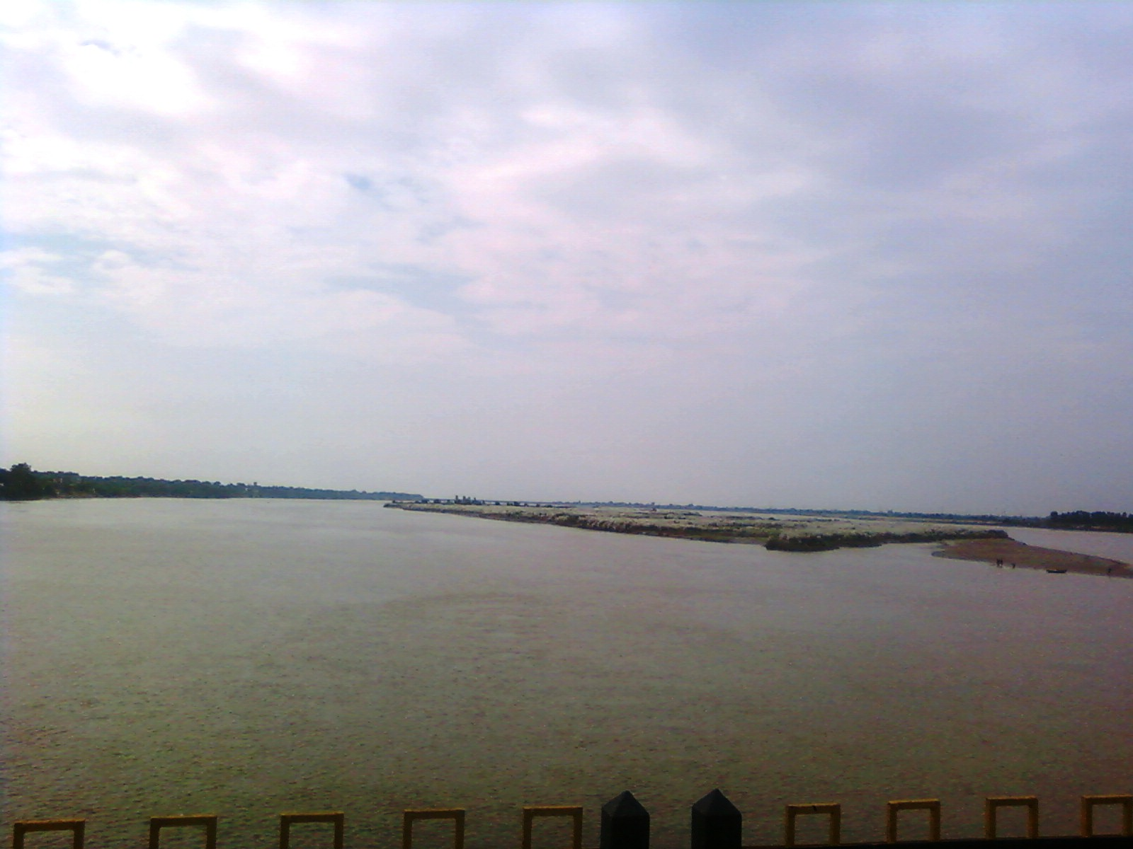 Ganga River during monsoon season